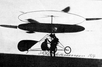 Ellehammer "Helicopter" in 1914; Ellehammer is about to switch off the ignition to land. Eric Hildes-Heim was the pilot.